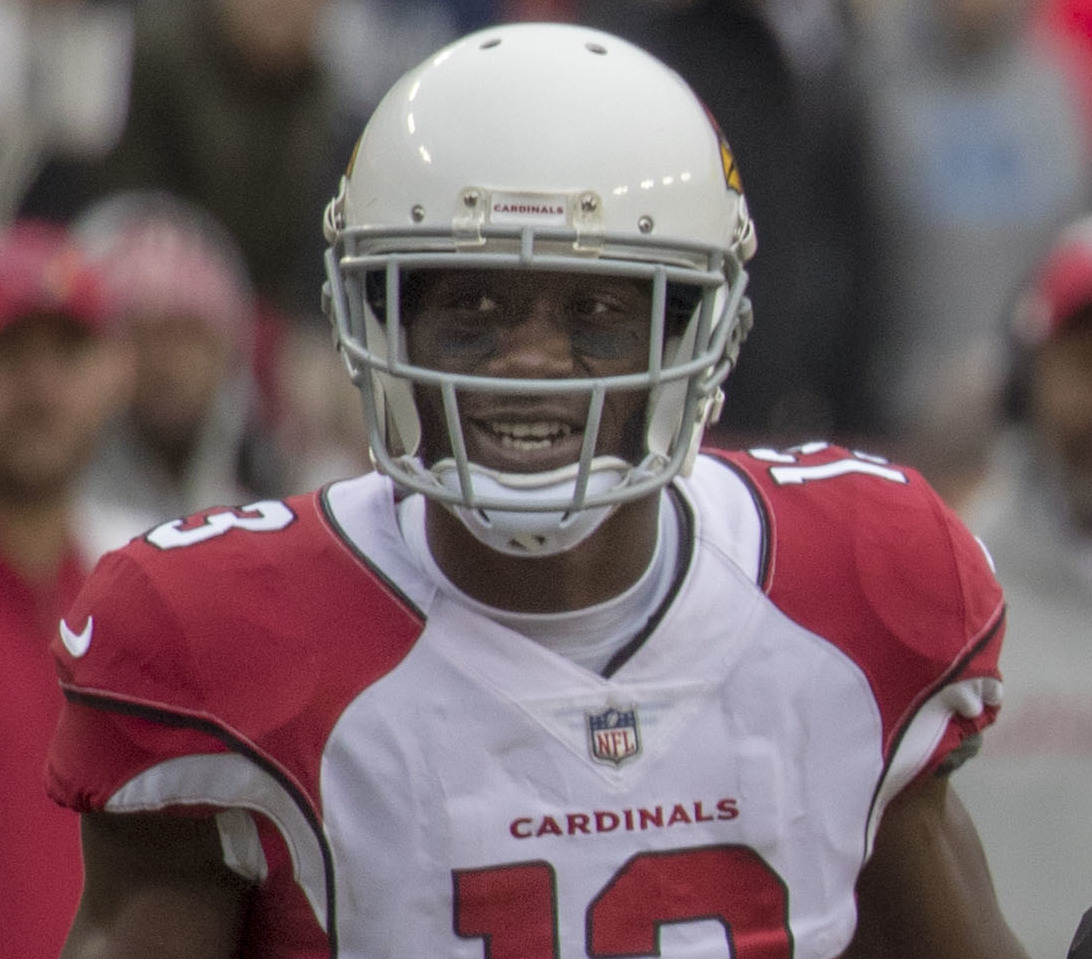 Arizona Cardinals wide receiver, Jaron Brown, and Washington Redskins cornerback, Josh Norman in a game on December 17, 2017.